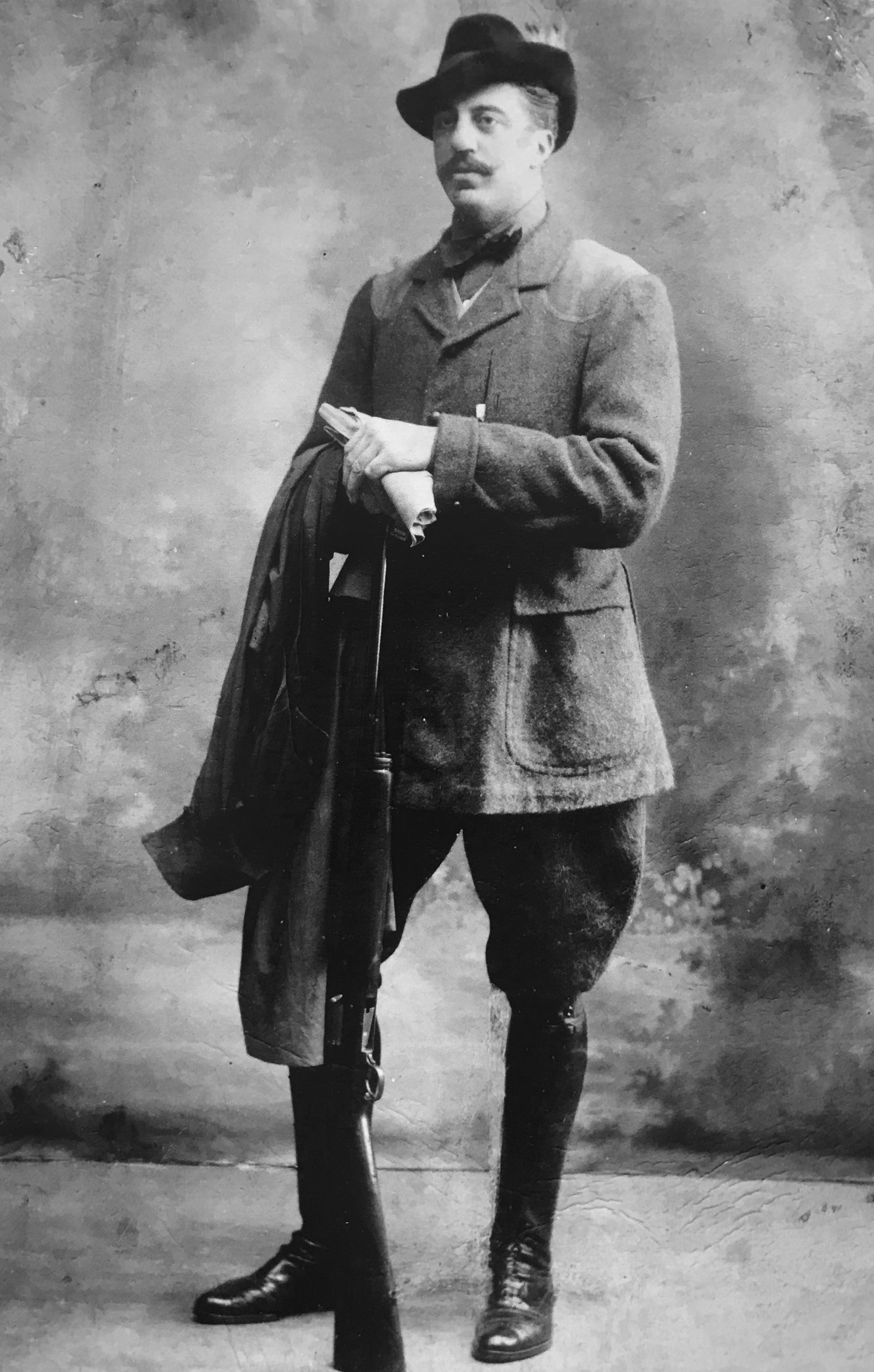 Photographic portrait of Pedro Pidal y Bernaldo de Quirós, marqués de Villaviciosa de Asturias, dressed in hunting attire, as propaganda for the newly created "parques naturales".